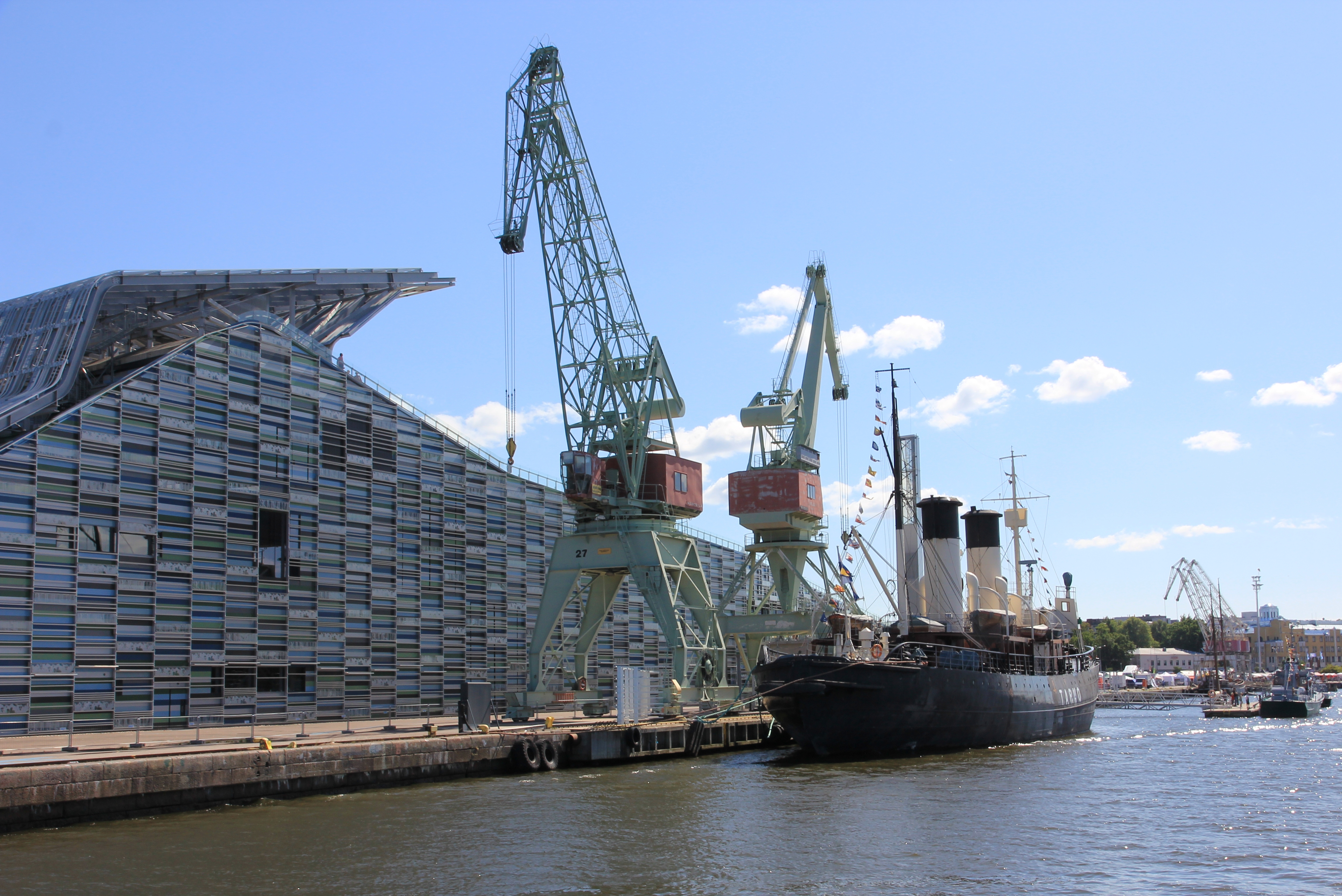 Maritime centre Vellamo and the museum icebreaker Tarmo.